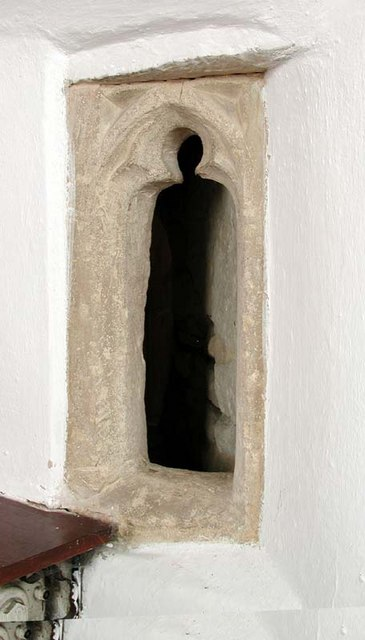 Church of England parish church of All Saints, Tilbrook, Cambridgeshire: hagioscope or squint